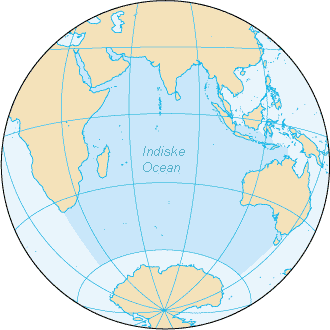 Map of The Indian Ocean (CIA FB 2002).